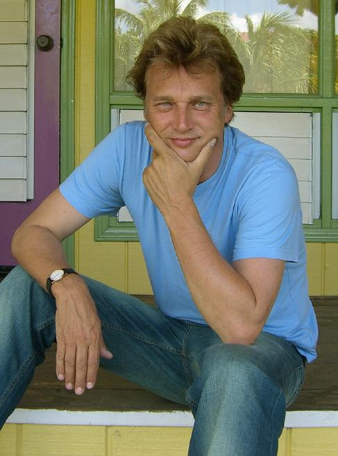 David Knopfler